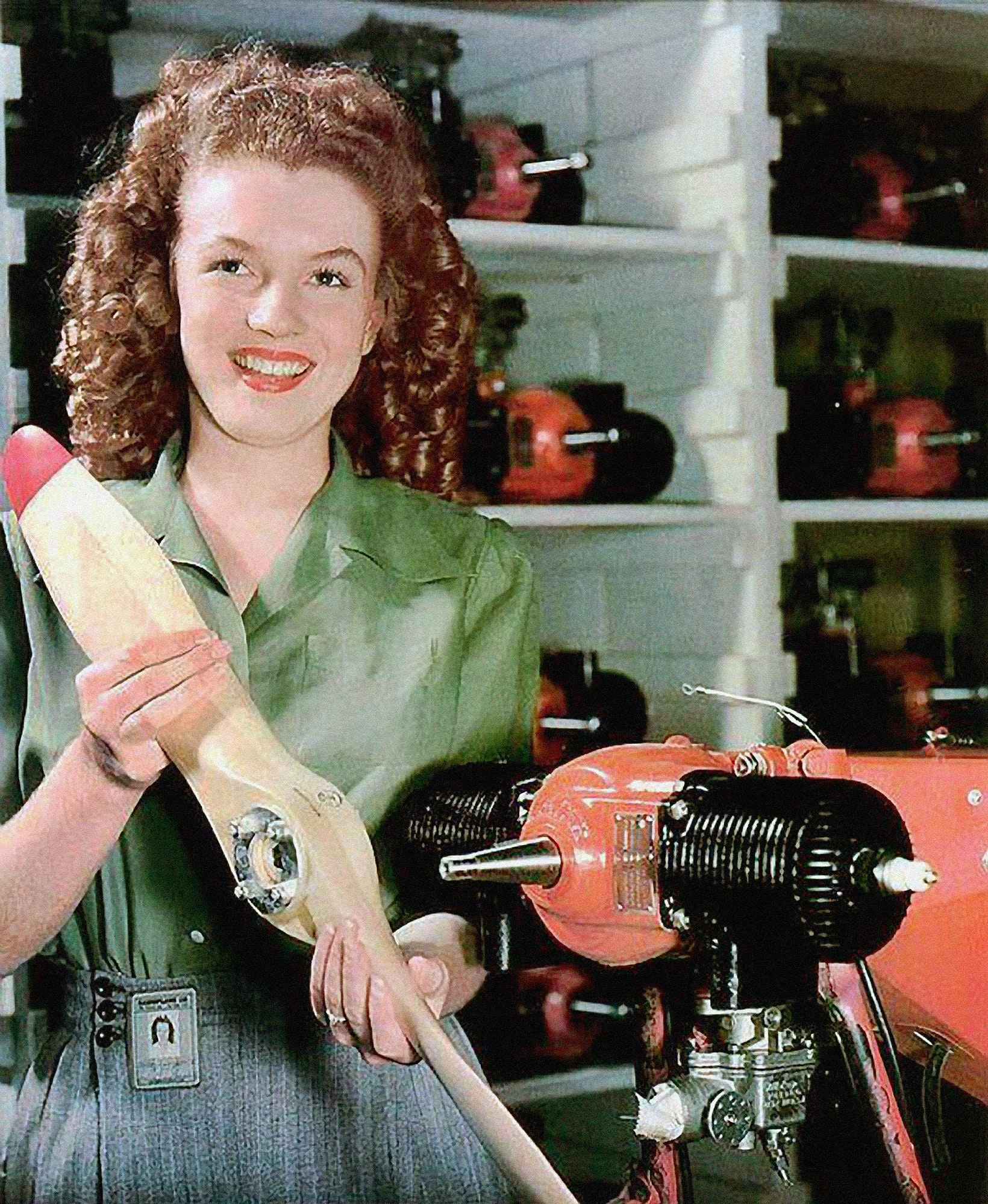 U.S. army - June 26, 1945 YANK magazine photo (colorized version) of Marilyn Monroe as Norma Jeane Dougherty